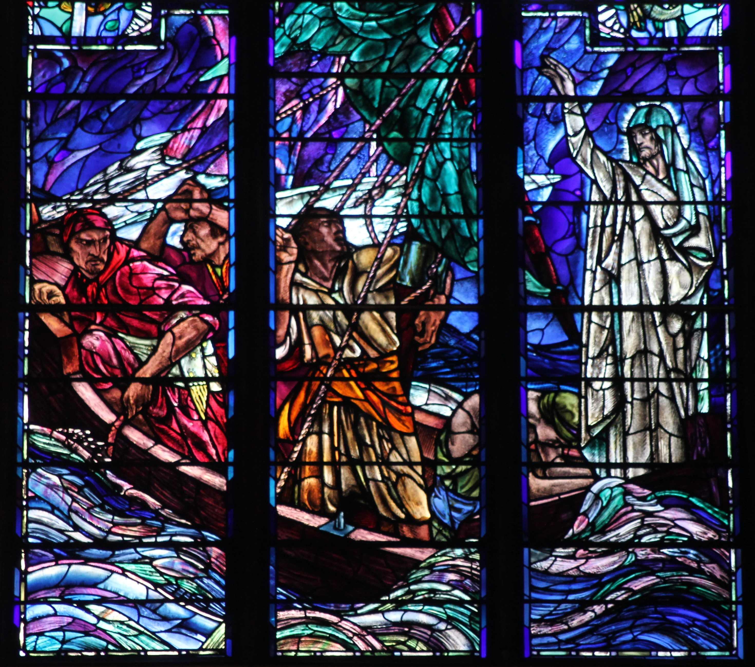 Jesus stills the Sea of Galilee in the north transept window of St Giles' Cathedral, Edinburgh. The window was designed by Douglas Strachan and completed in 1922.